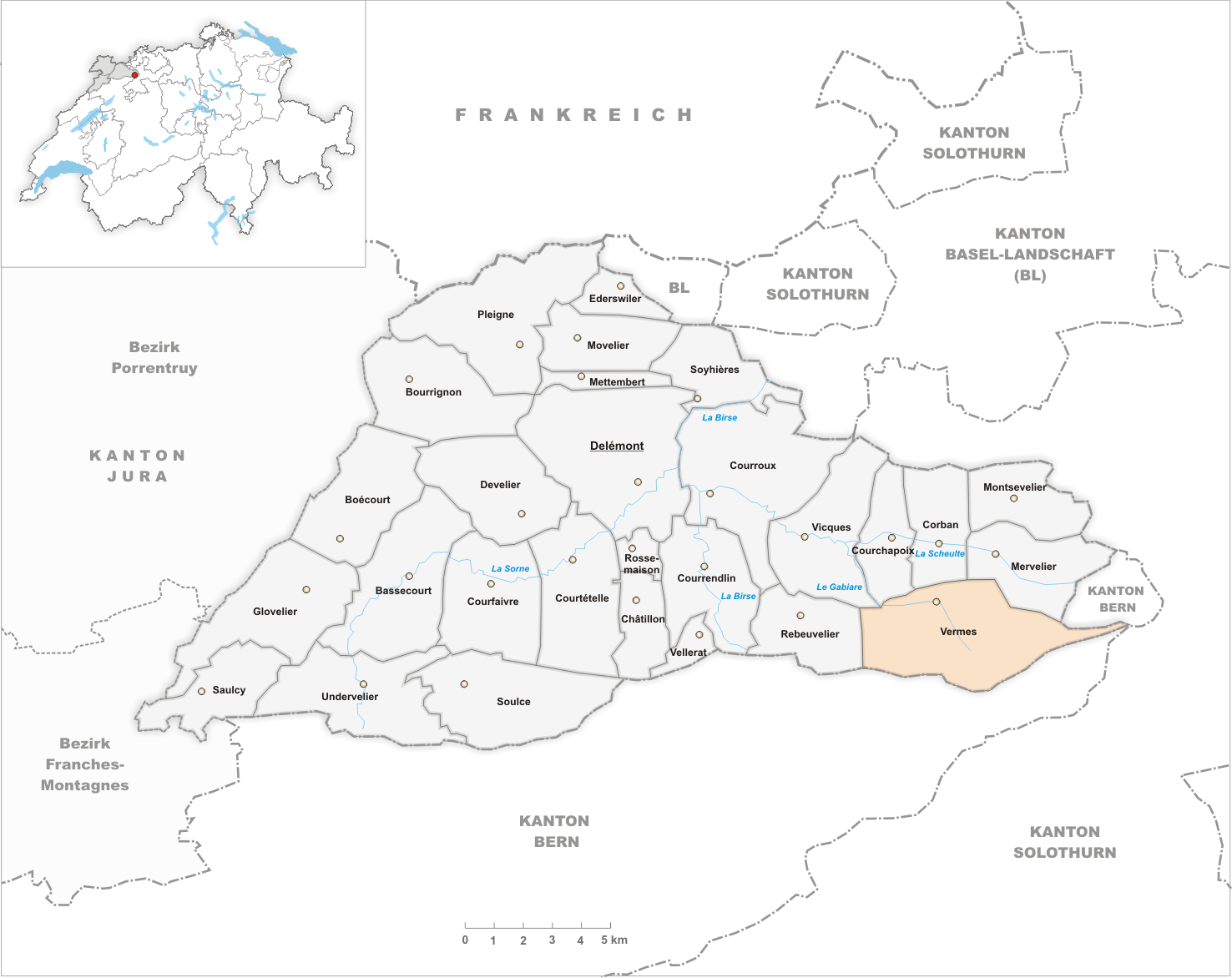 Municipality Vermes